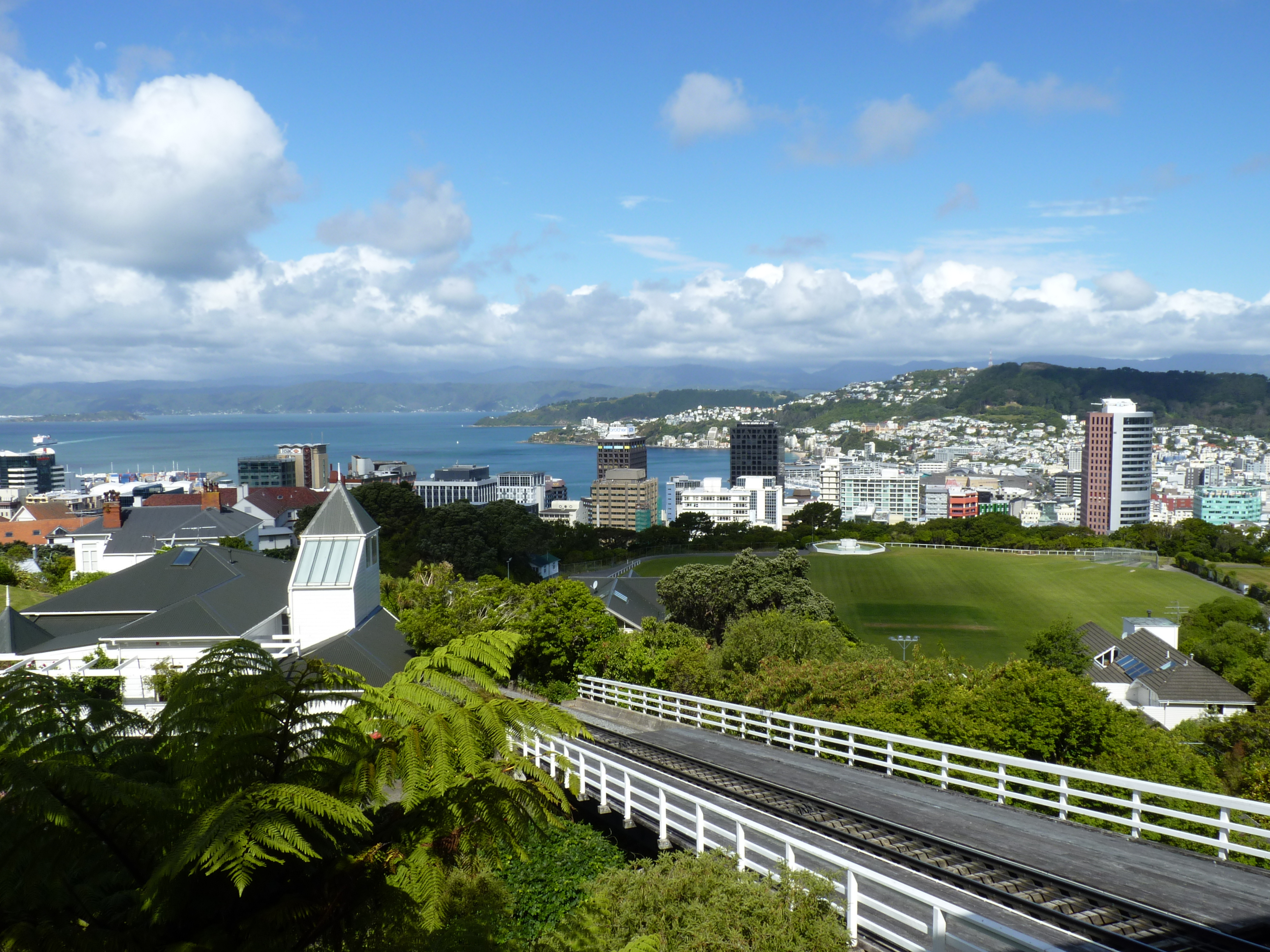 Rawhiti Terrace, Wellington, New Zealand